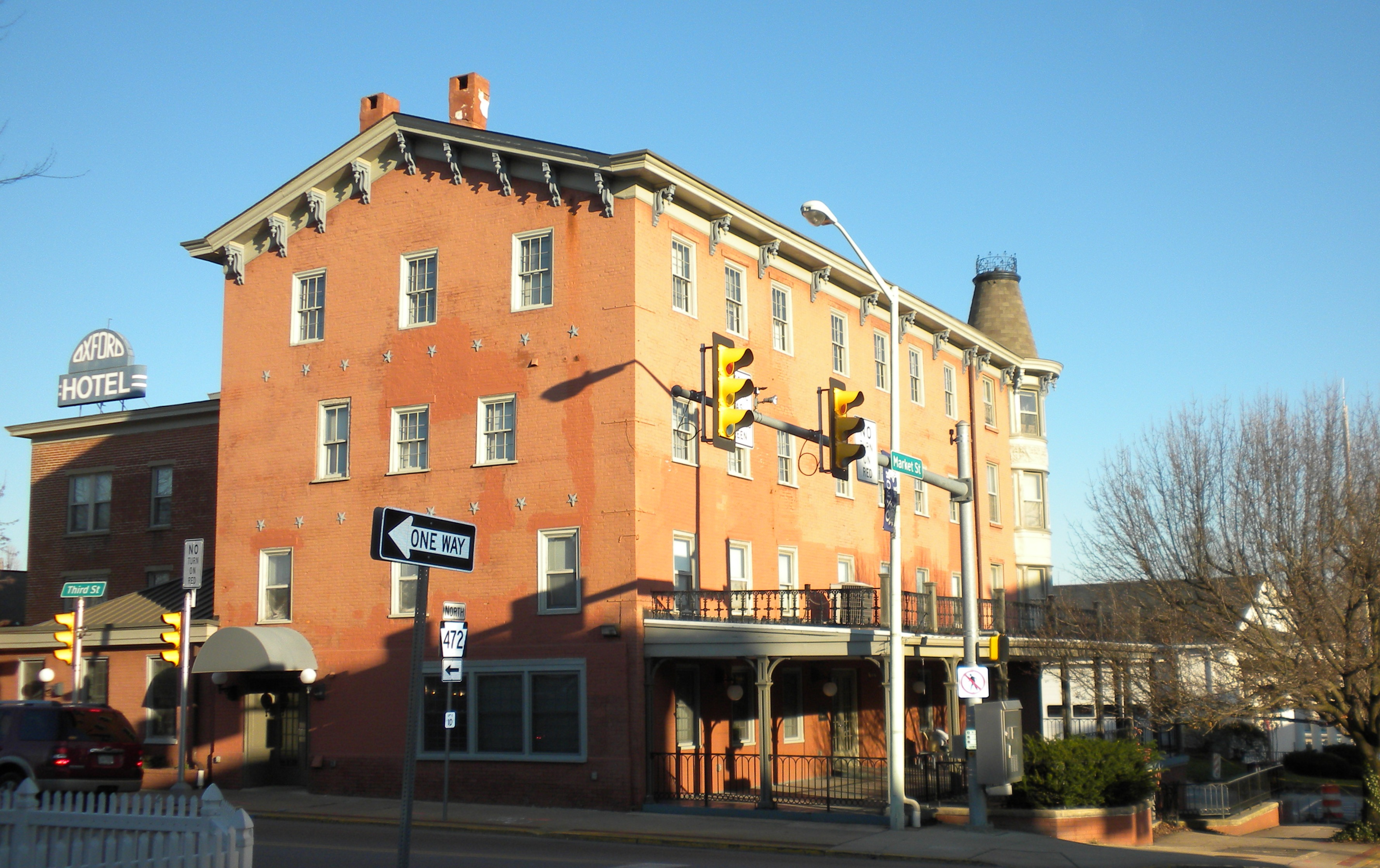 Oxford Hotel in Oxford, PA in Chester County. On NRHP. This is my own work donated to the public domain.